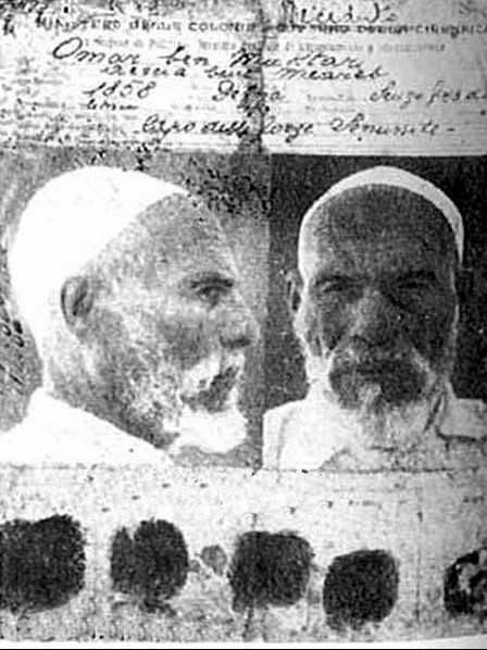 Omar Mukhtar's photo (front and side view), as well as his finger prints. Having been taken after his arrest by the Italians.